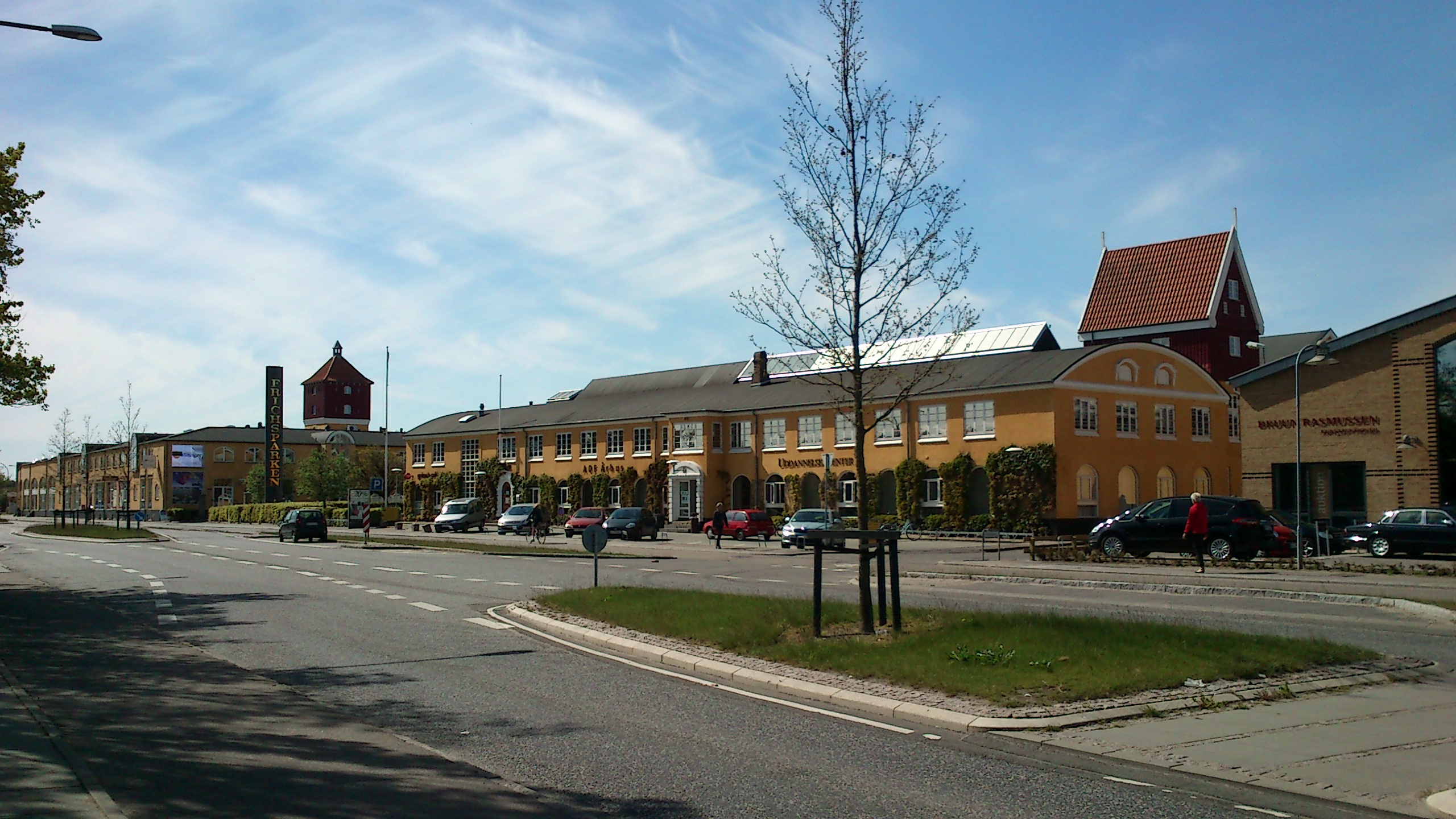 Frichsparken